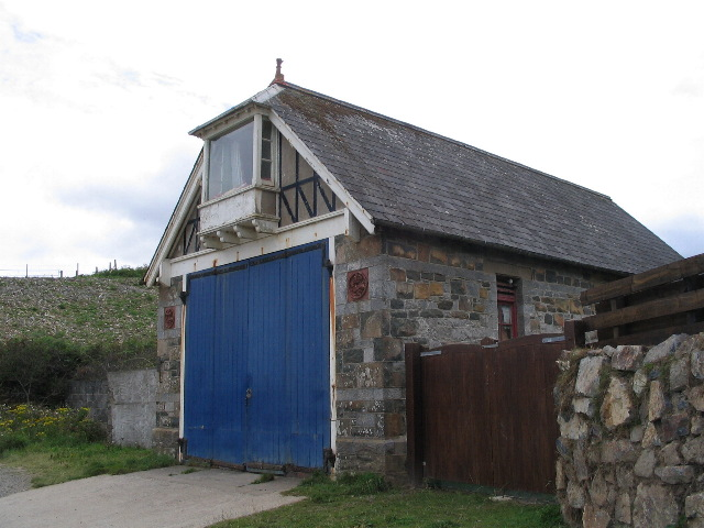 The old lifeboat station. Situated at the bottom of Y Cwm at the west end of Parrog. The plaque to the left of the doors read RNLBI, nowadays abbreviated RNLI, ( 531929 ) and the one to the right reads 1884 ( 531933). Apparently it was built for the Newport lifeboat "Clevedon" but was abandoned in 1895 due to difficulty launching at certain states of the tide and negotiating the sand bar across the river mouth. I find it hard to believe that local people would not have foreseen this problem.